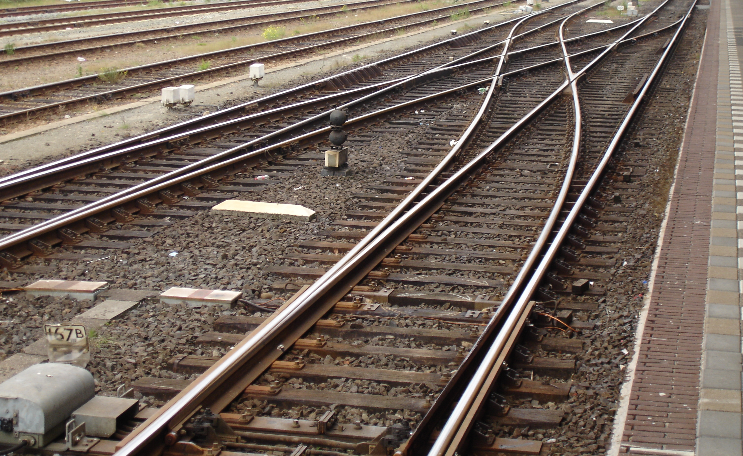 Scissors crossover.